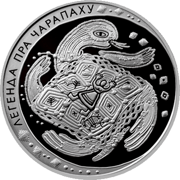 Belarusan silver commemorative coin «Легенда пра чарапаху». Denomination 20 rubles.